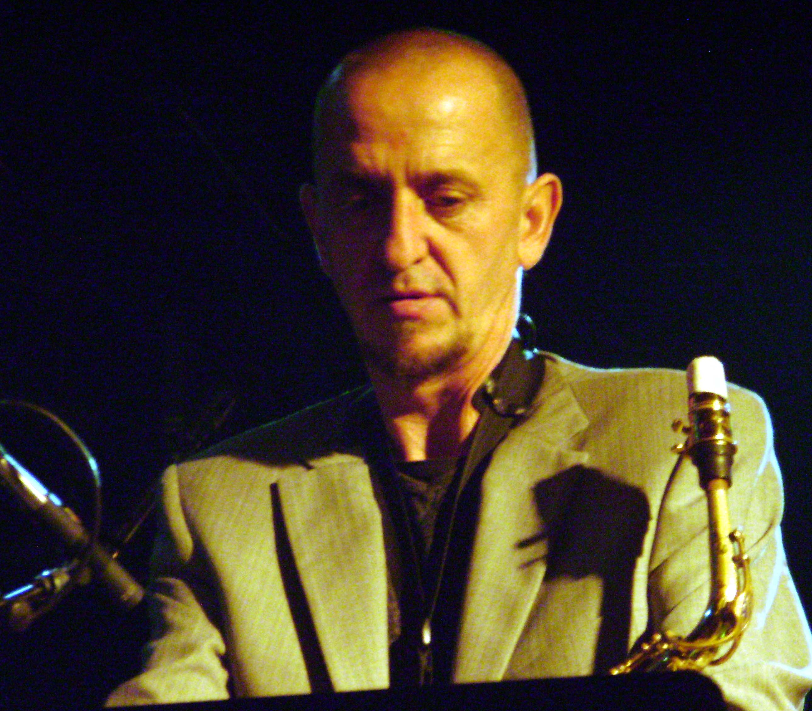 Klaus Dickbauer at a concert with Saxofour. Treibhaus Innsbruck, 2008